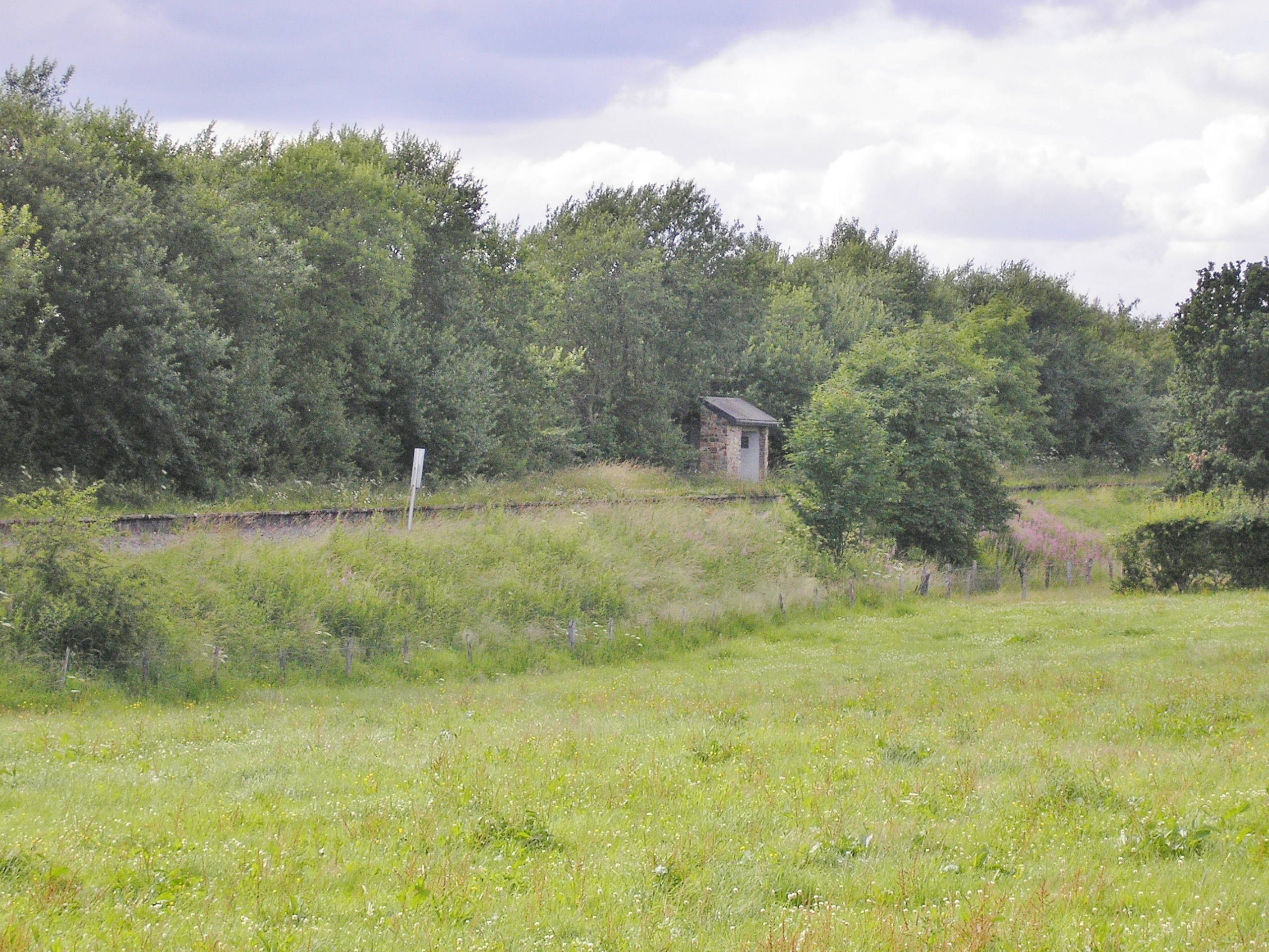 Railway = Vennbahn =, East Belgium